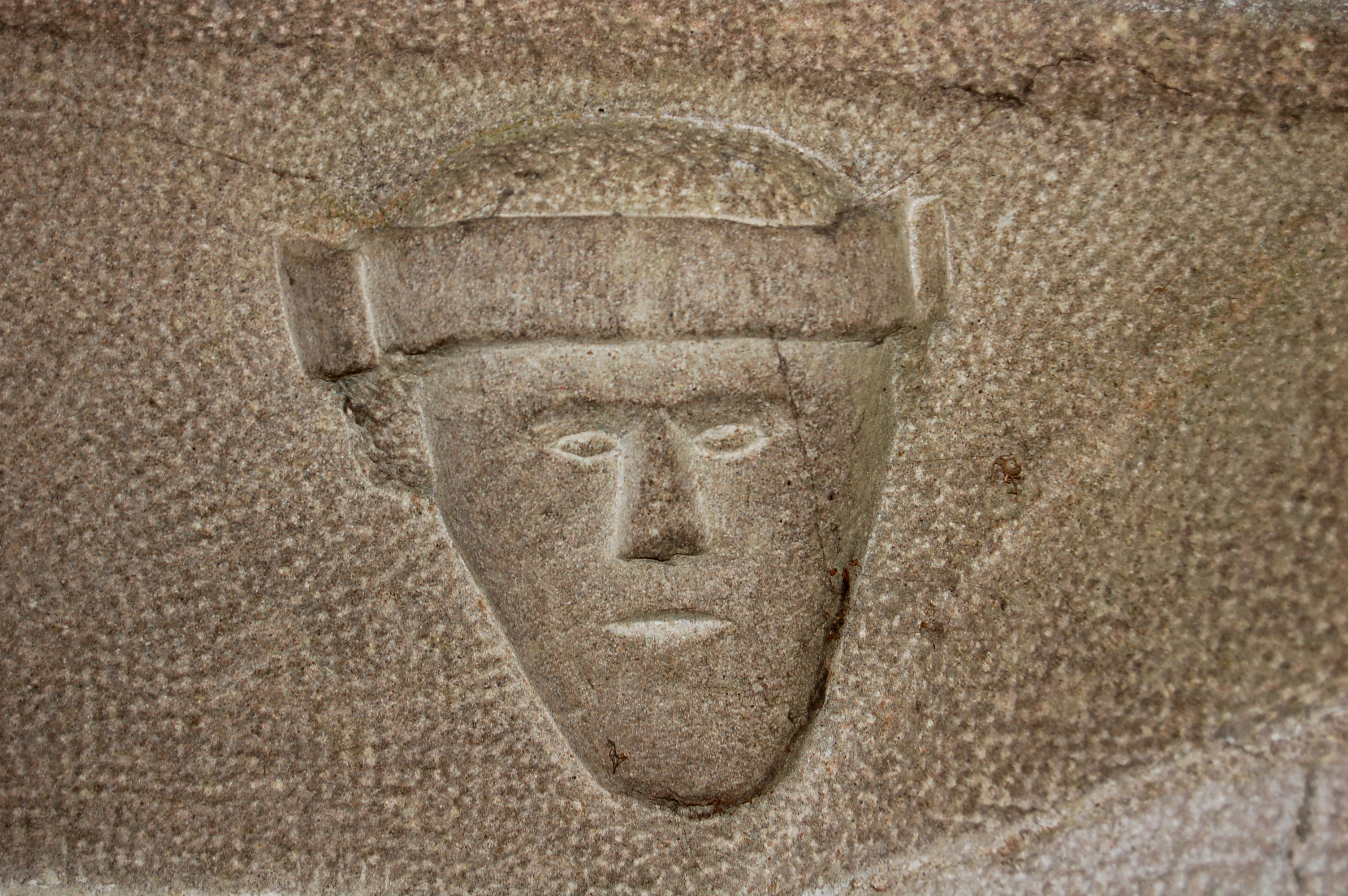 Gosau, Upper Austria. Relief on the lintel of the catholic church St. Sebastian.